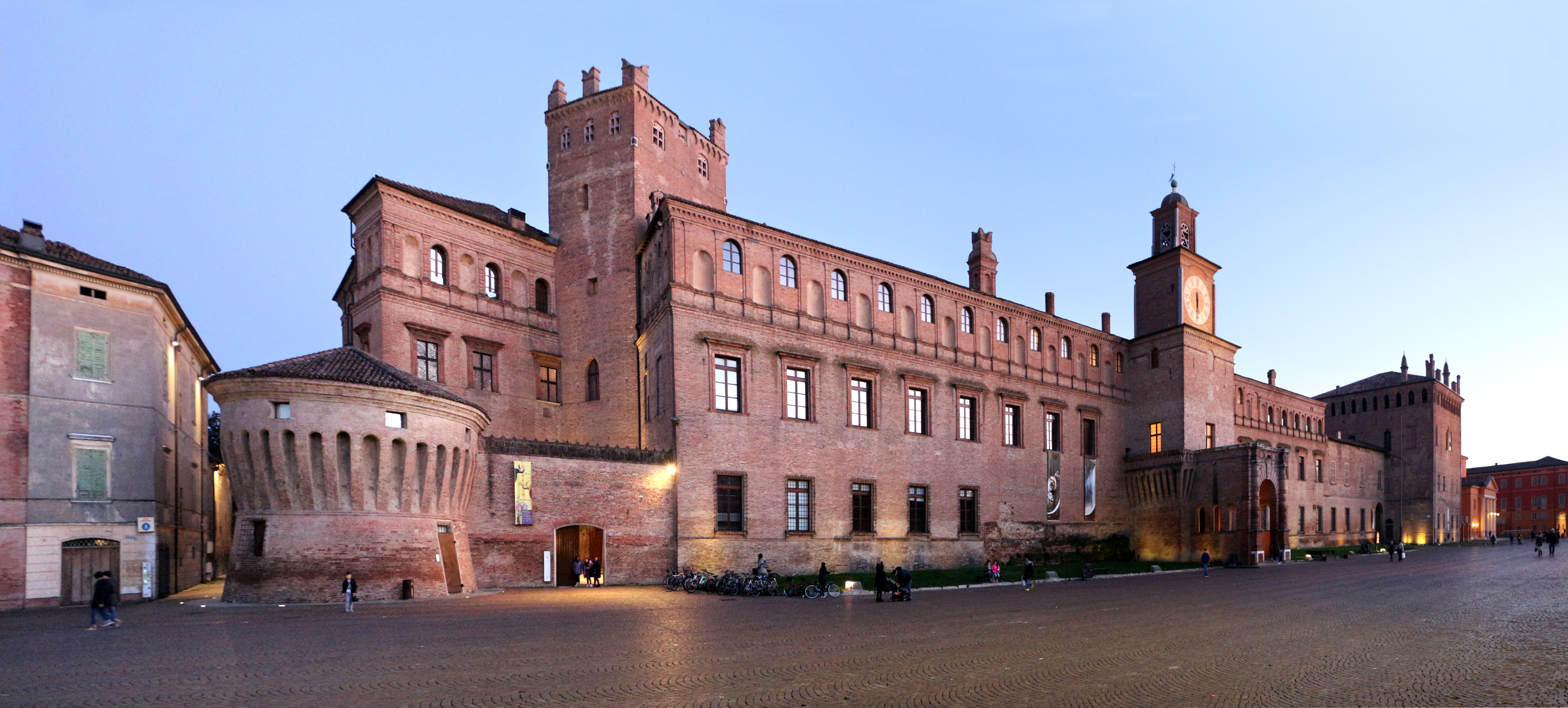 Palazzo dei Pio